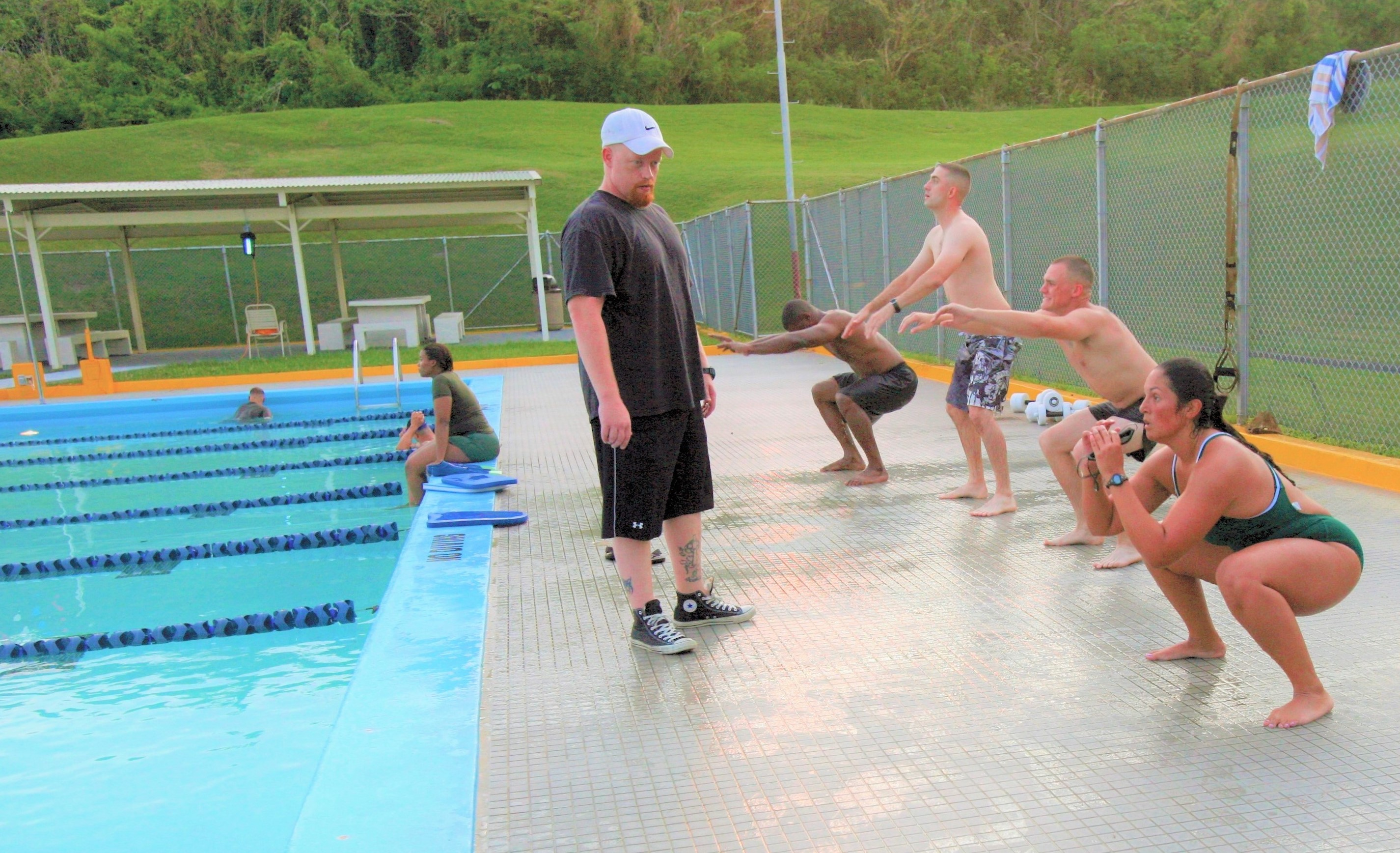 Participants with the Water Warrior class perform squats prior to entering the pool at Camp Foster, Okinawa, Japan, July 6, 2011. The class, hosted by Marine Corps Community Services, is a combination of water fitness and standard body exercises ranging from cross training workouts to swimming laps.